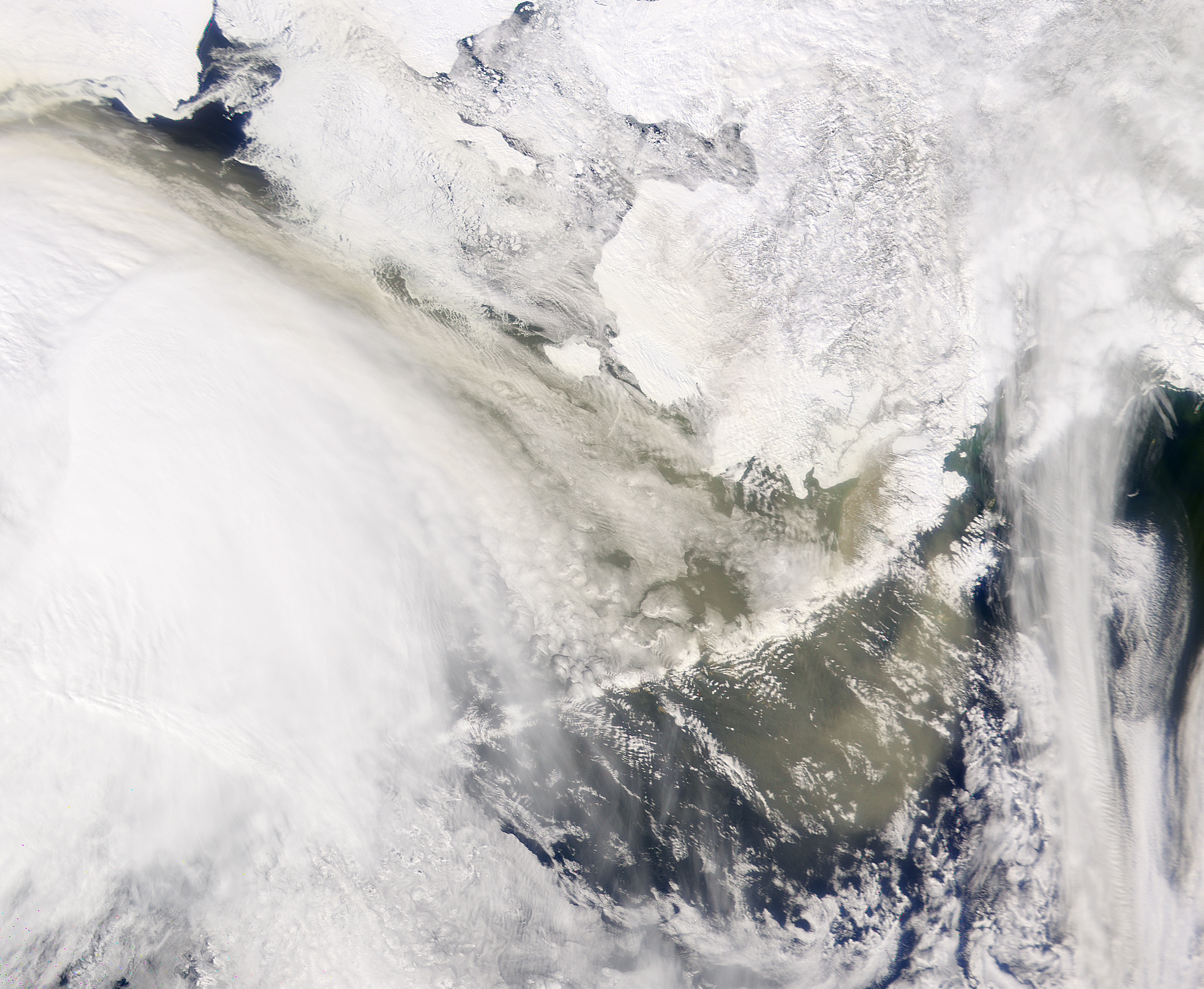 Asian Dust Reaches Alaska.(April 13, 2002) Image courtesy the SeaWiFS Project, NASA/Goddard Space Flight Center, and ORBIMAGE